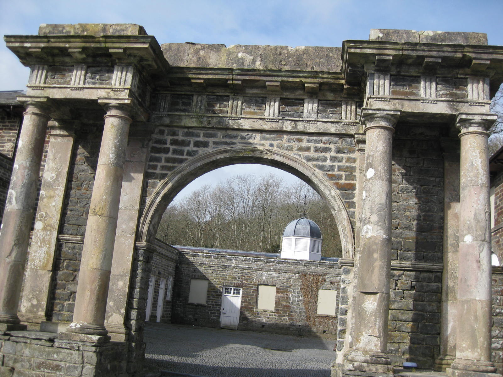 Gateway to theStable Block at Nanteos, SE of Aberystwyth. Probably by the Shrewsbury Architect Edward Haycock